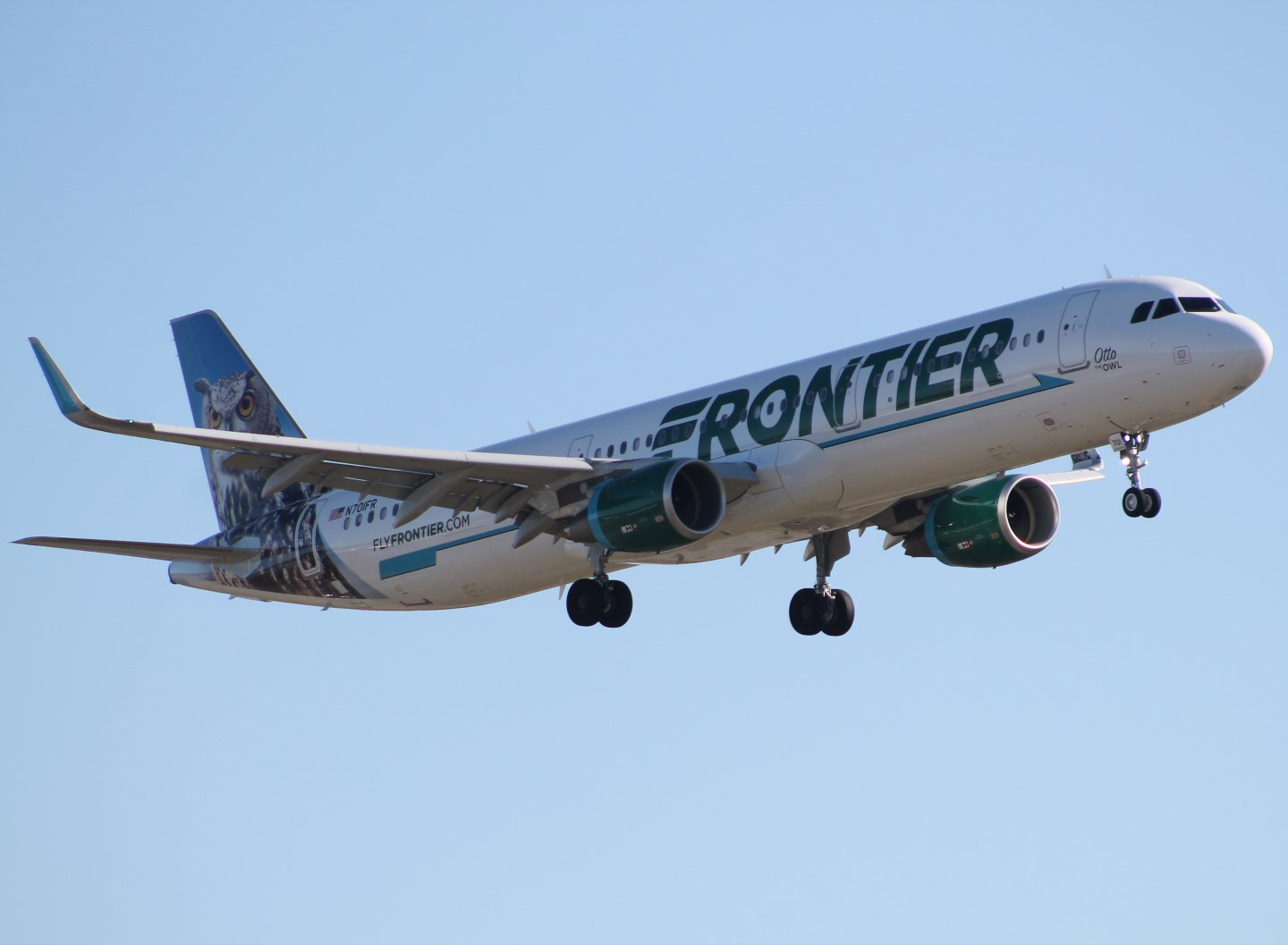 Seen on Final into the 24's at KCLE Cleveland Hopkins International Airport, spotted from the 100th Bomb Group Parking Lot